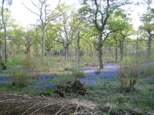 Bluebells, Finemere Wood 2. Finemere Wood is a Site of Special Scientific Interest (SSSI) managed by the Berks, Bucks & Oxon Wildlife Trust, see 408568. In this view some of the trees have been coppiced.